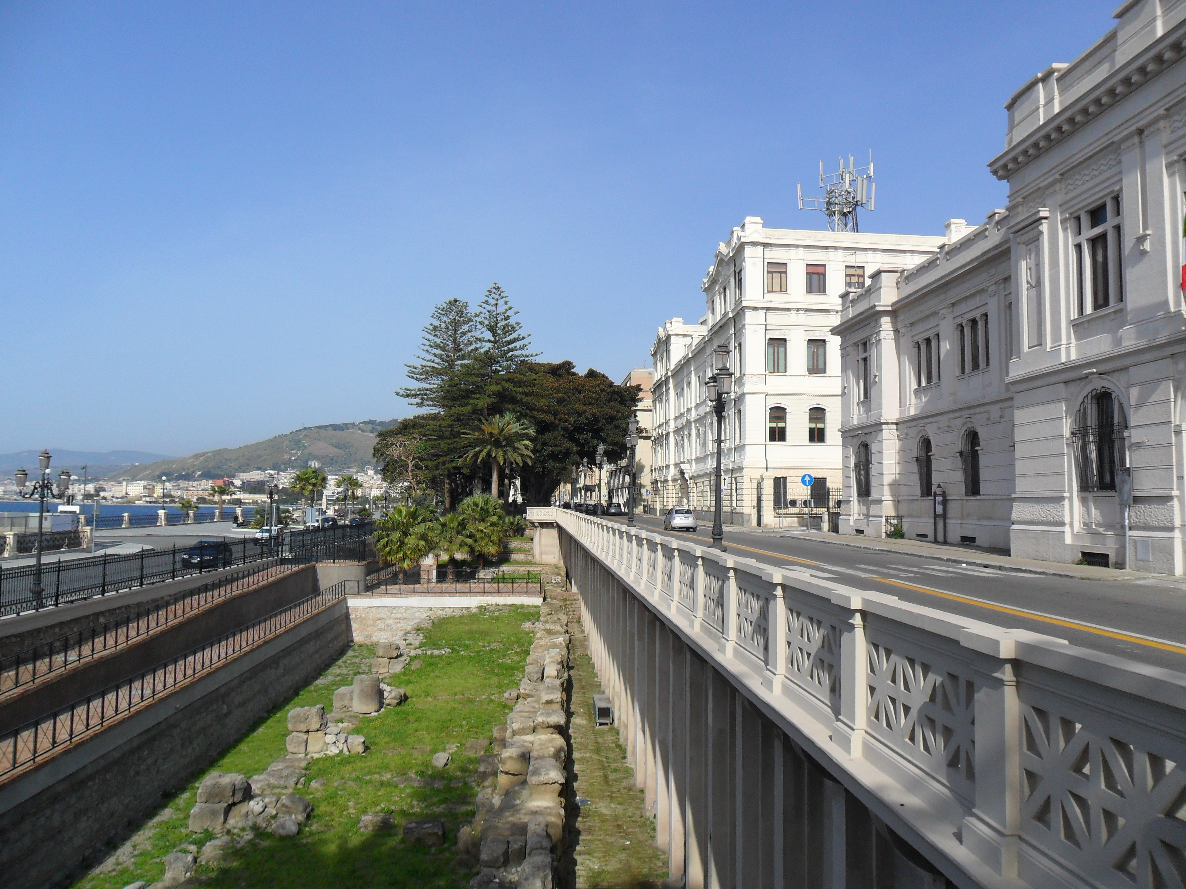 Archaeological excavations of the greek walls